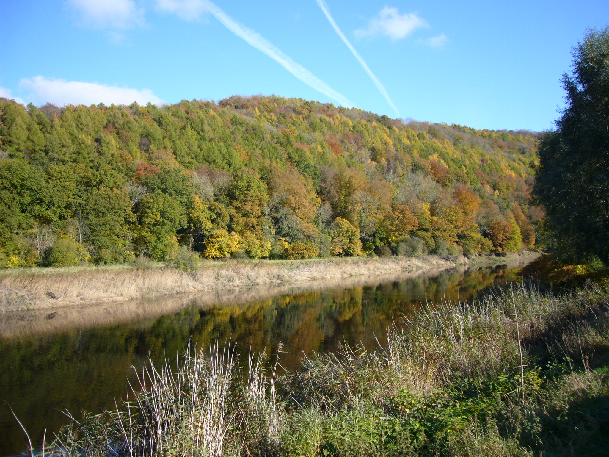 River Wye by Tintern Abbey - Autumn colours